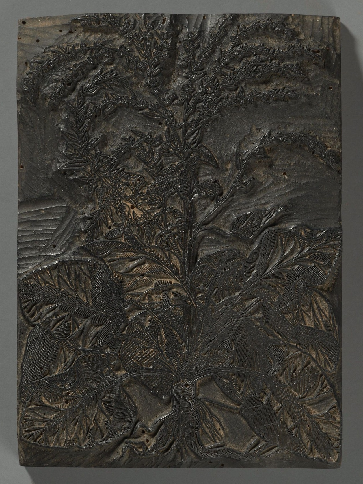 Woodblock from De I discorsi nelli sei libri di Pedacio Dioscoride anazarbo by Pietro Andrew Mattioli (1501-1577). Circa 1561. TypR-87 (1), Houghton Library, Harvard University